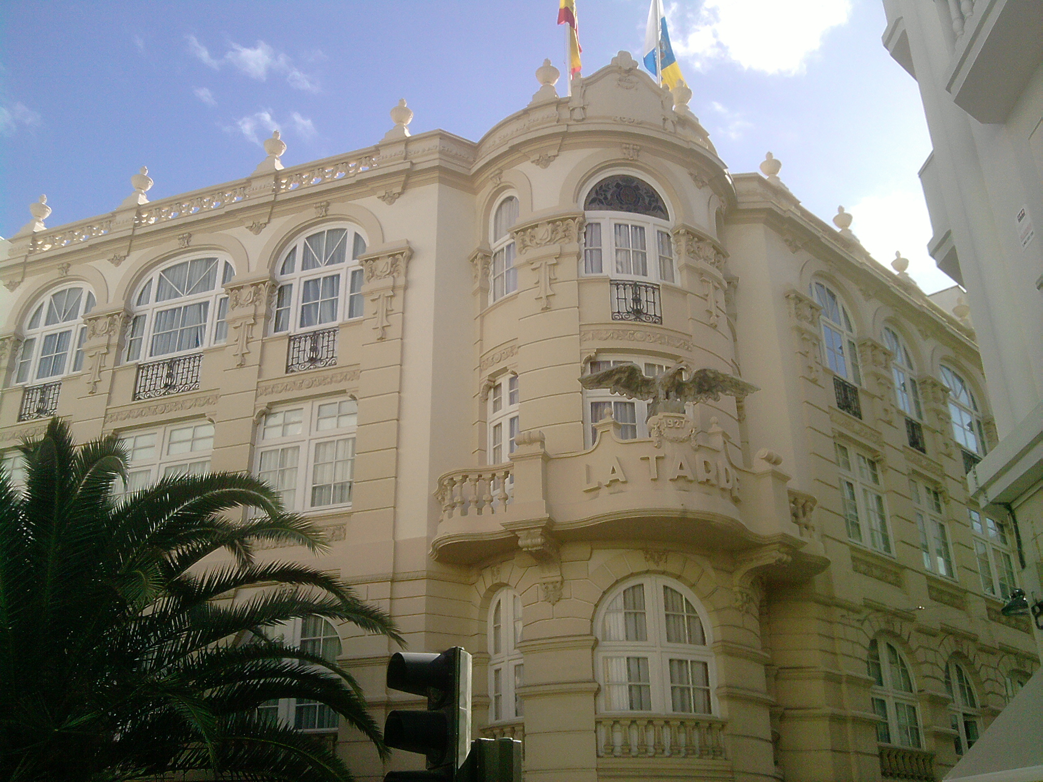 The headquarters building of the Court of Auditors of the Canary Islands originally housed a tobacco factory "El Águila" and later the newspaper La Tarde.